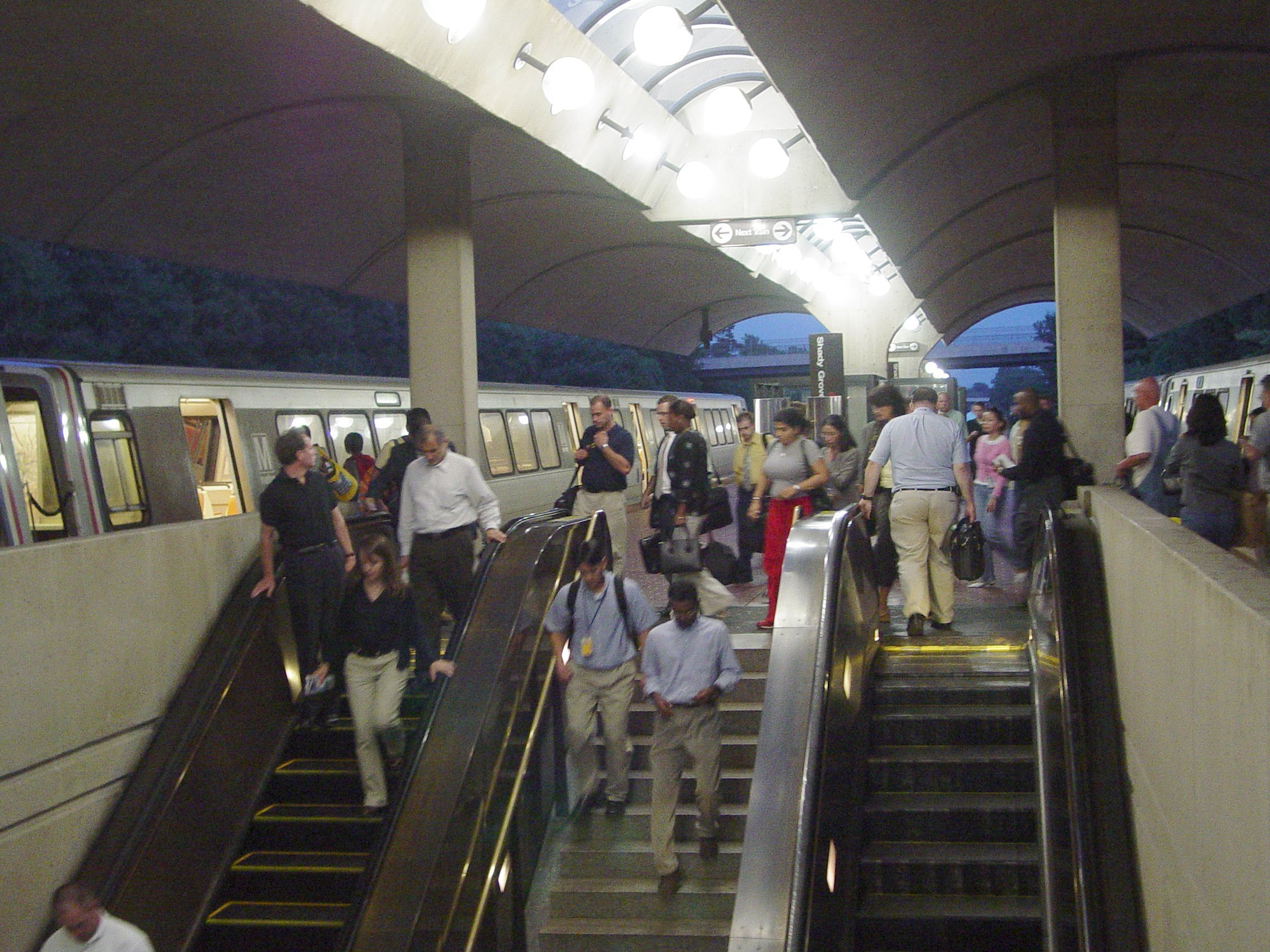 The Shady Grove Metro station.